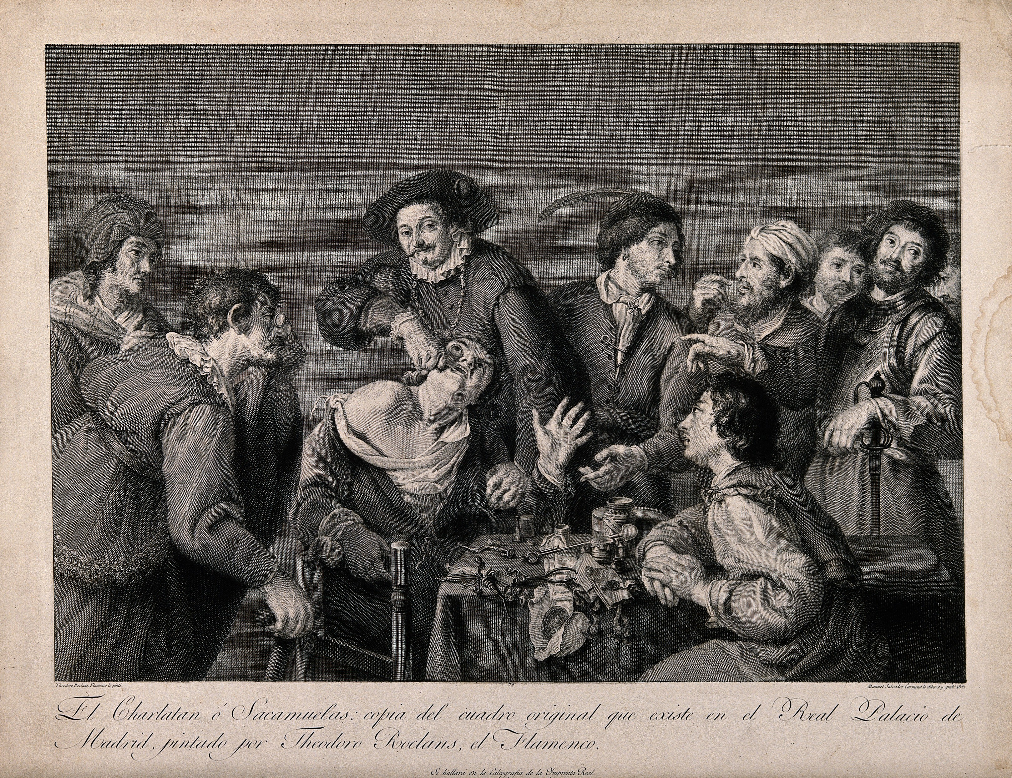 A confident tooth-drawer extracts a tooth from a seated patient, they are surrounded by a curious audience. Line engraving by M. Salvador, 1805, after T. Rombouts. Iconographic Collections Keywords: Theodoor Rombouts; Manuel Salvador Carmona